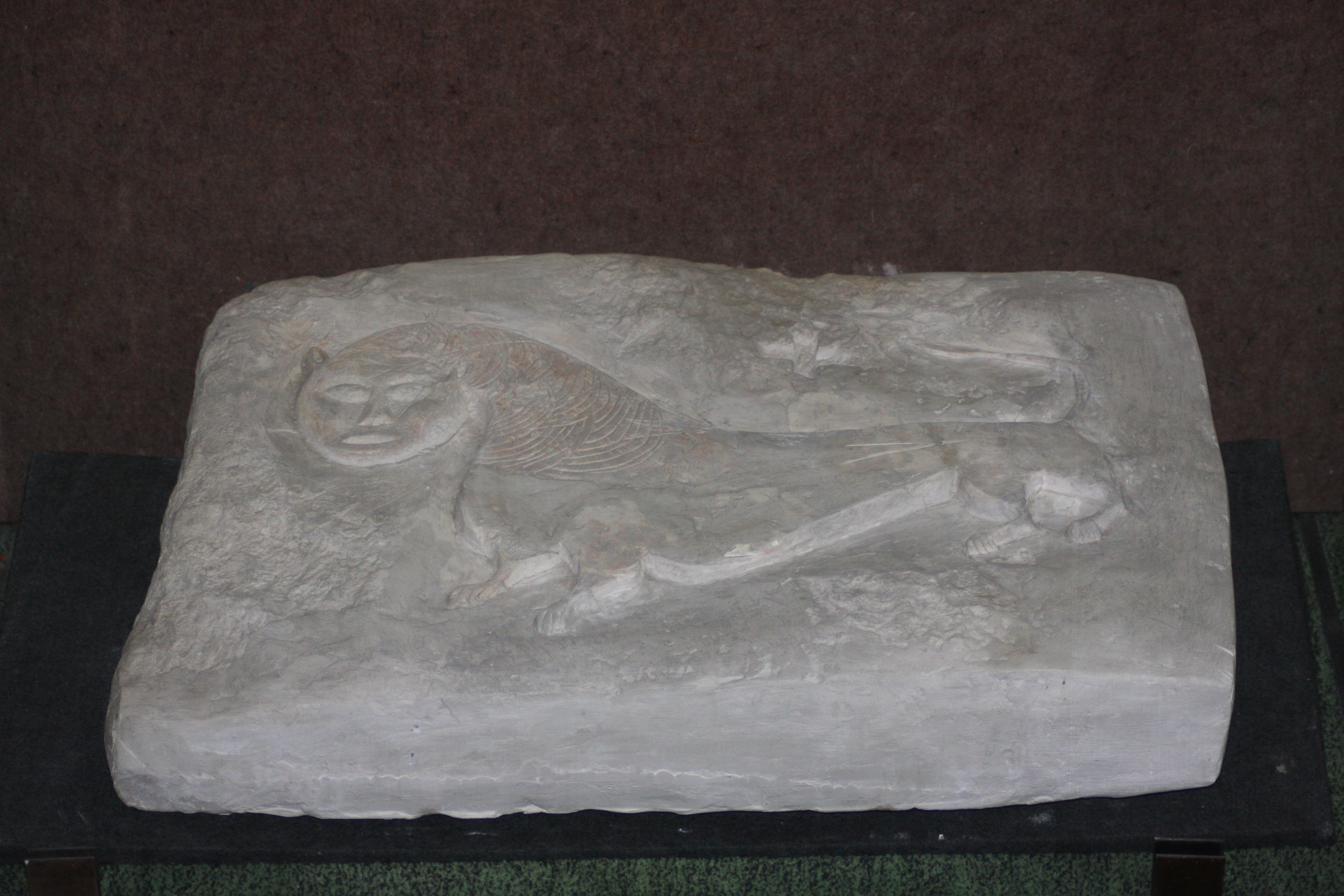 Basarabi Cave complex depiction exposed in Constanta Museum